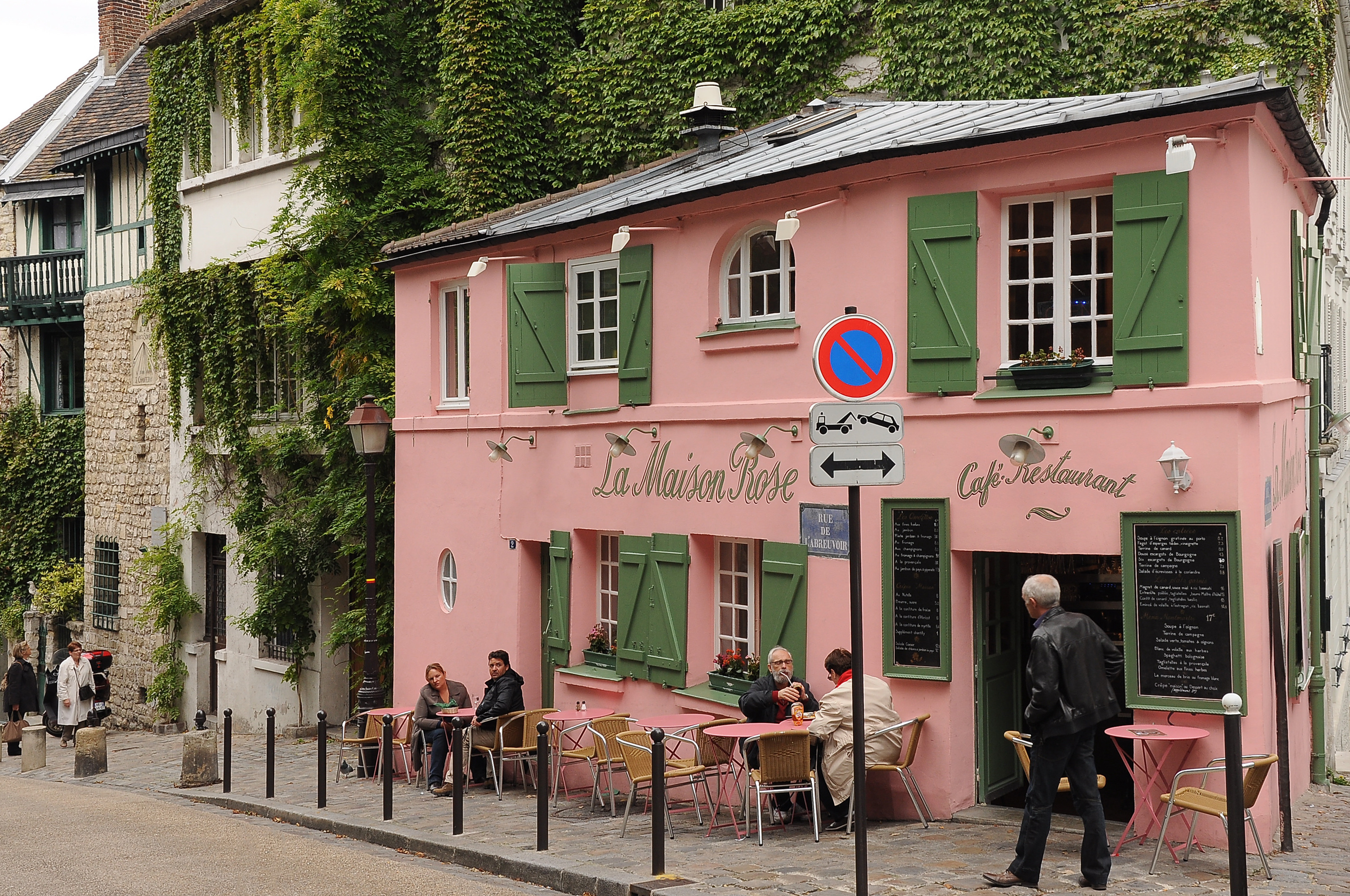 La Maison Rose (Pink House) at the corner of the streets rue des Saules and rue de l'Abreuvoir in Montmartre, Paris 18th arrondissement, France.